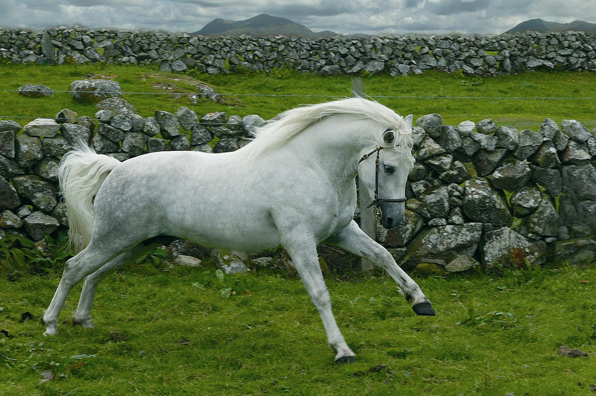 Connemara stallion